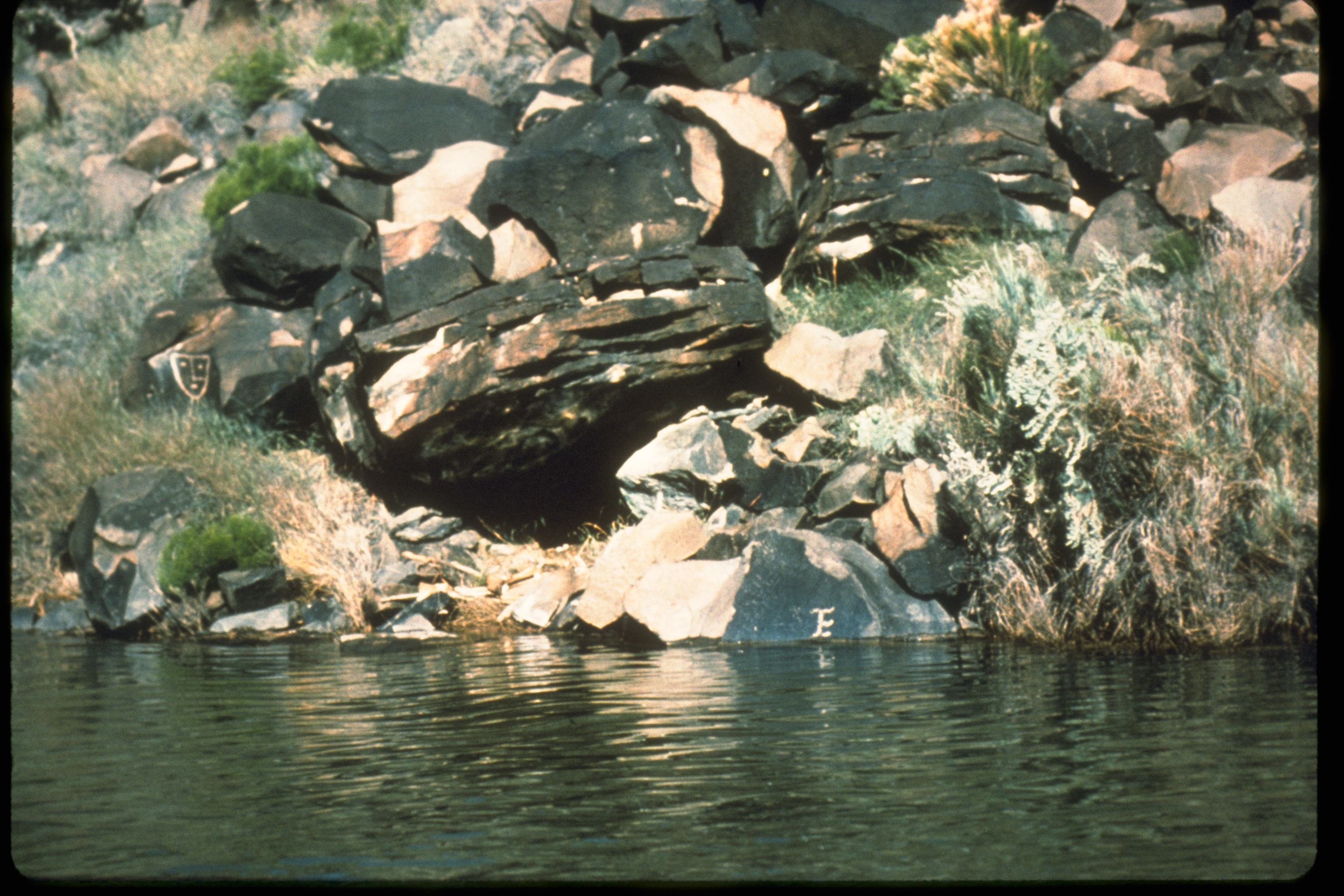 Location Bandelier National Monumant Description Bandelier's 33,000 acres encompasses numerous scenic views with its sloped mesas and steep-walled canyons, from over 10,000 feet at Cerro Grande to just over 5,000 feet at the Rio Grande.